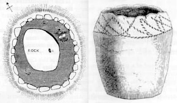 Drawing - Barrow with urn near Boscawen-ûn Stone Circle